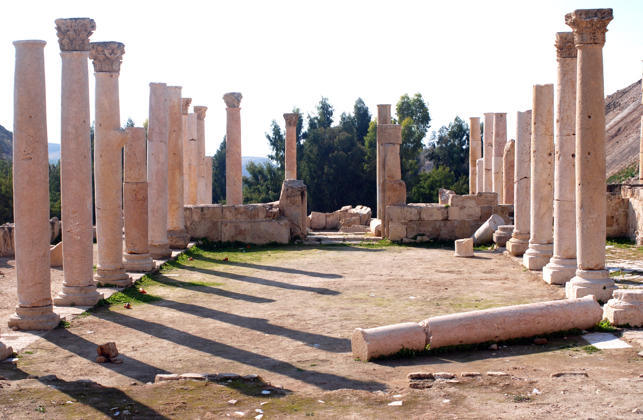 This Byzantine Period basilica at Pella is one of three churches so far uncovered at the site. This particular basilica stands at the head of the spring in Wadi Jirm that is located between the main mound (to right in the photo), and Tell Husn. *Destroyed by a severe earthquake in the eighth century CE, the restoration of this monument has been the responsibility of the Jordanian Department of Antiquities over recent years.